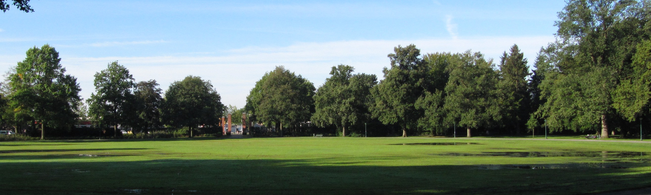 Enschede - GJ van Heekpark